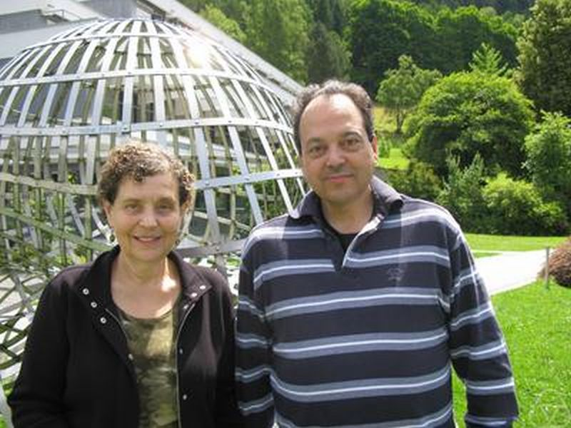 Svetlana and Anatole Katok, Oberwolfach 2009